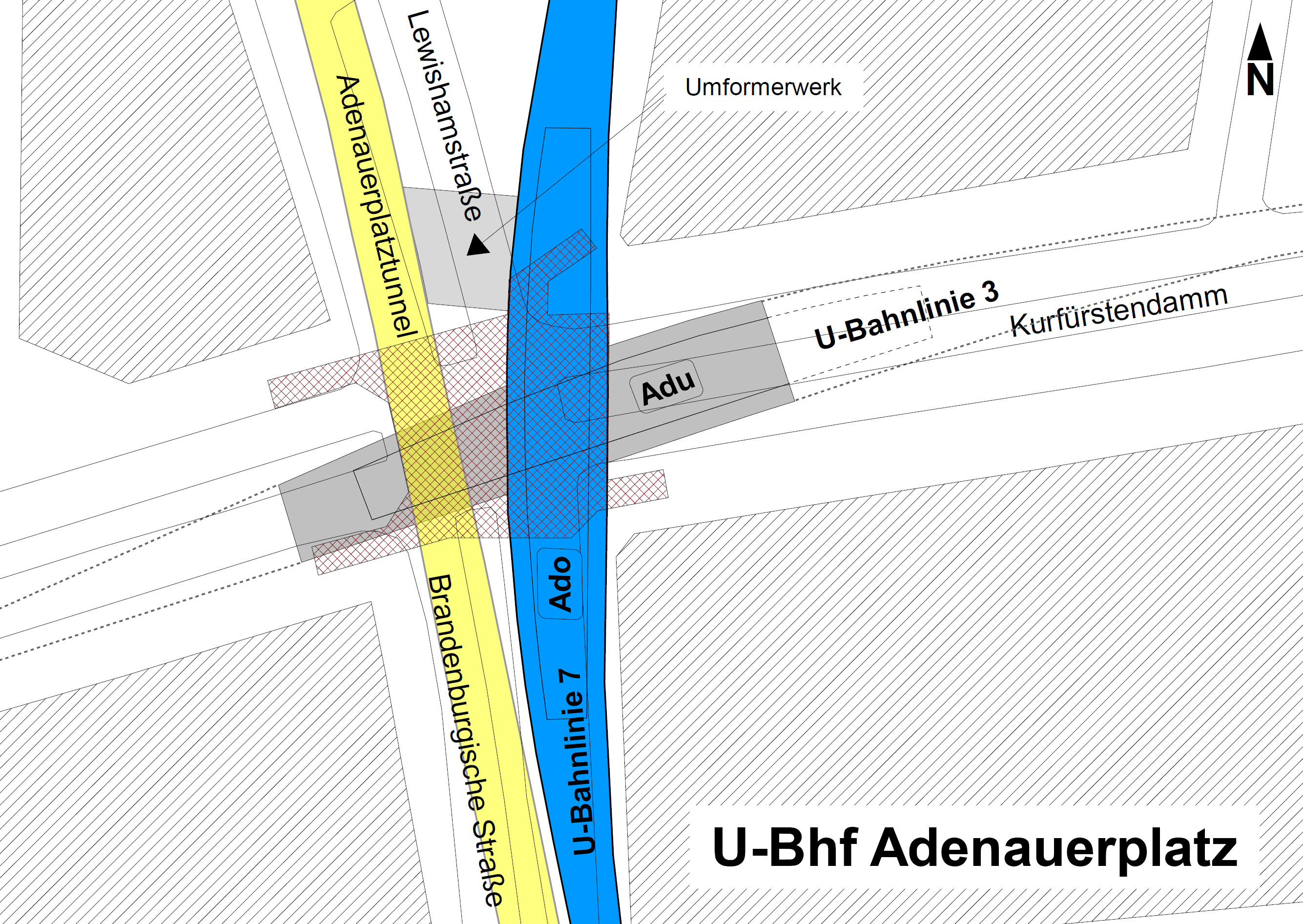 Berlin metro station Adenauerplatz